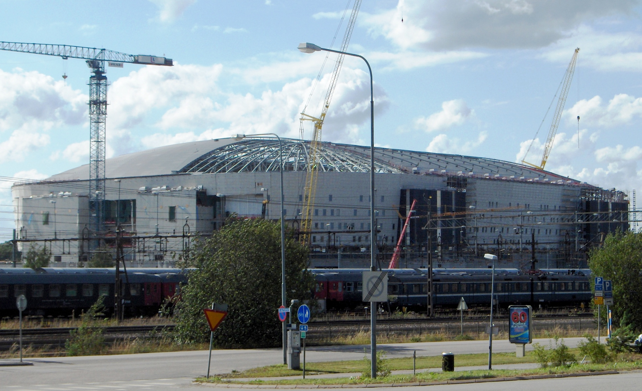 Swedbank Arena, Solna, Sweden, July 24, 2011.